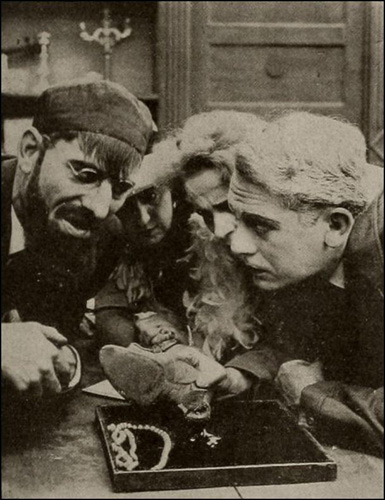 An image from The Blood Red Tape of Charity which depicts the cast. This is the only available image of the lost film.